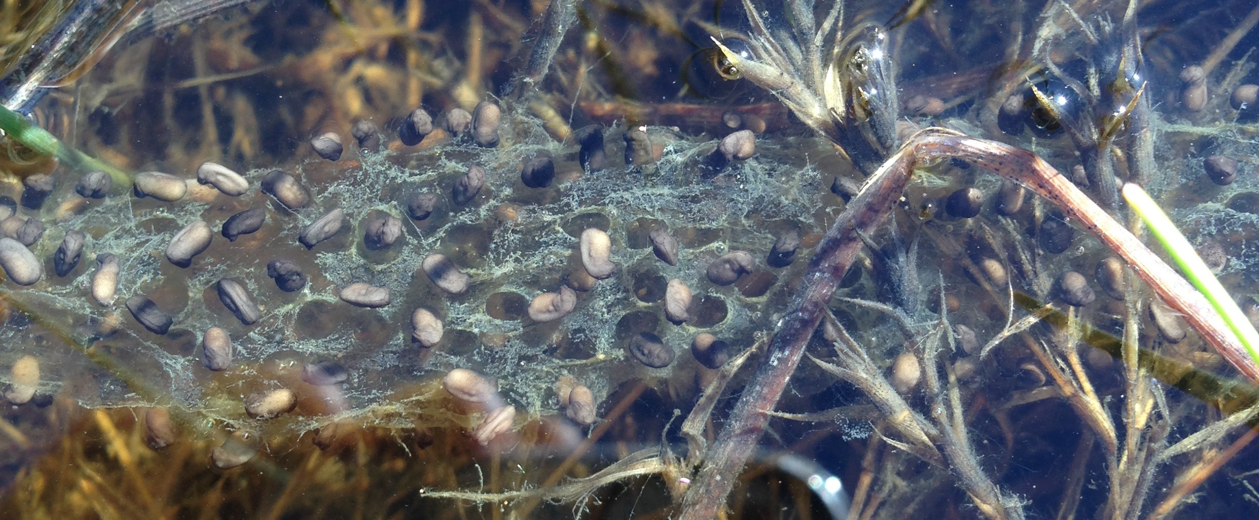 Frogspawn of Pelobates syriacus, Rehovot Vernal pool, Israel. 2017-01-06